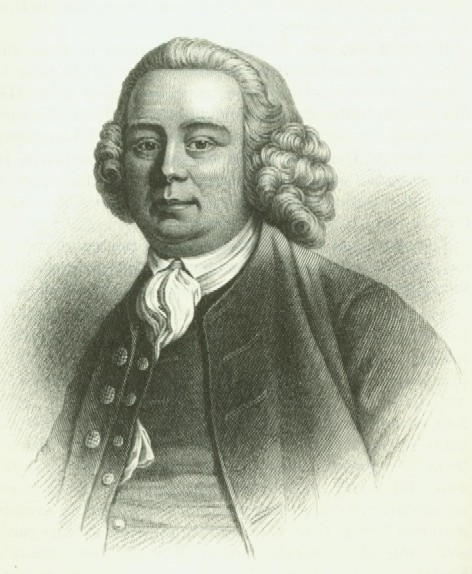 Engraving of James Brindley, the English civil engineer